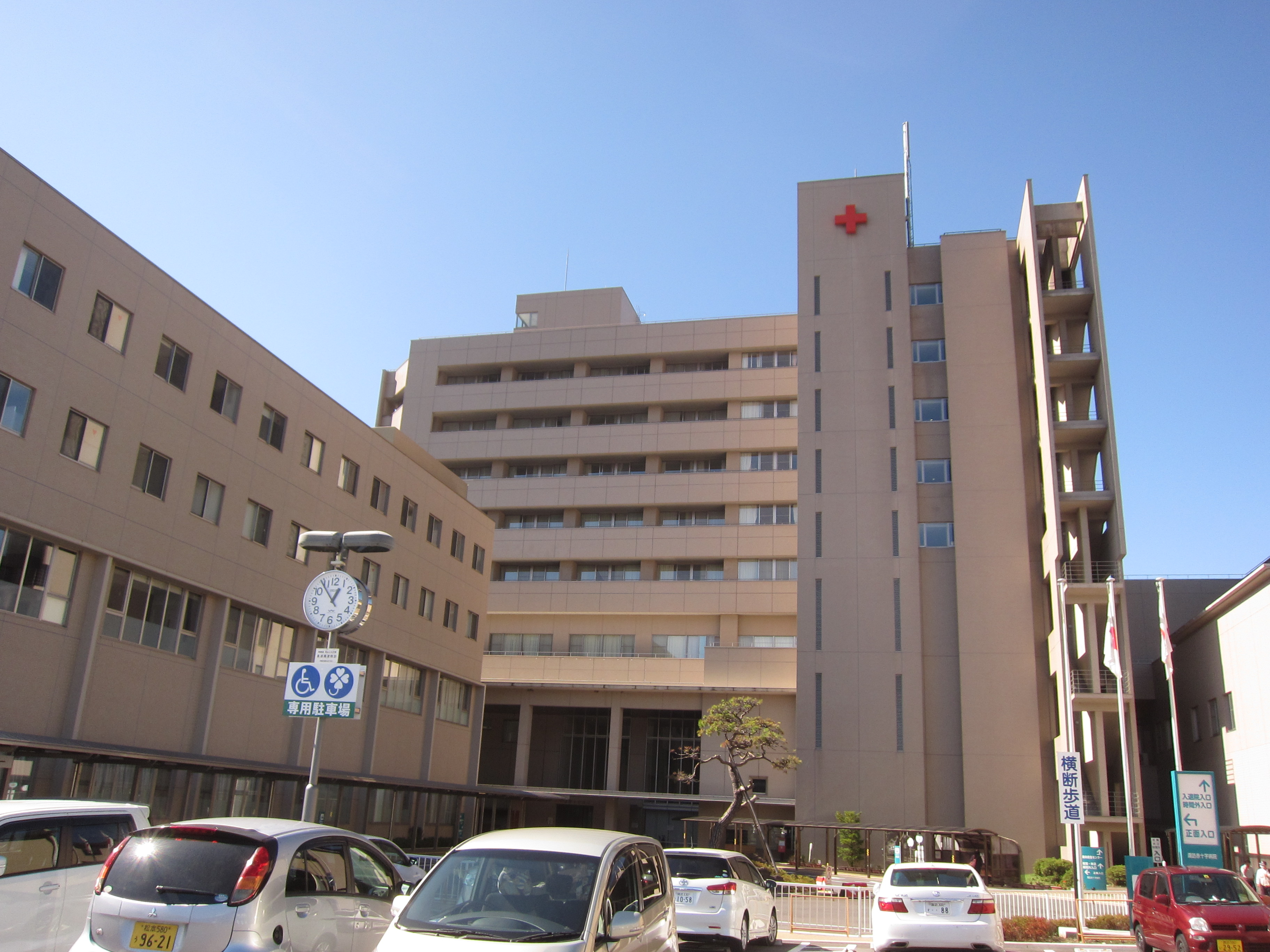 Suwa Red Cross Hospital